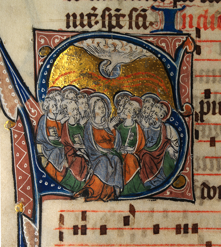 This beautiful Missal made from parchment originates from East Anglia. It is considered a very important manuscript as it is one of the earliest examples of a Missal of an English source. Sarum Missals were books produced by the Church during the Middle Ages for celebrating Mass throughout the year